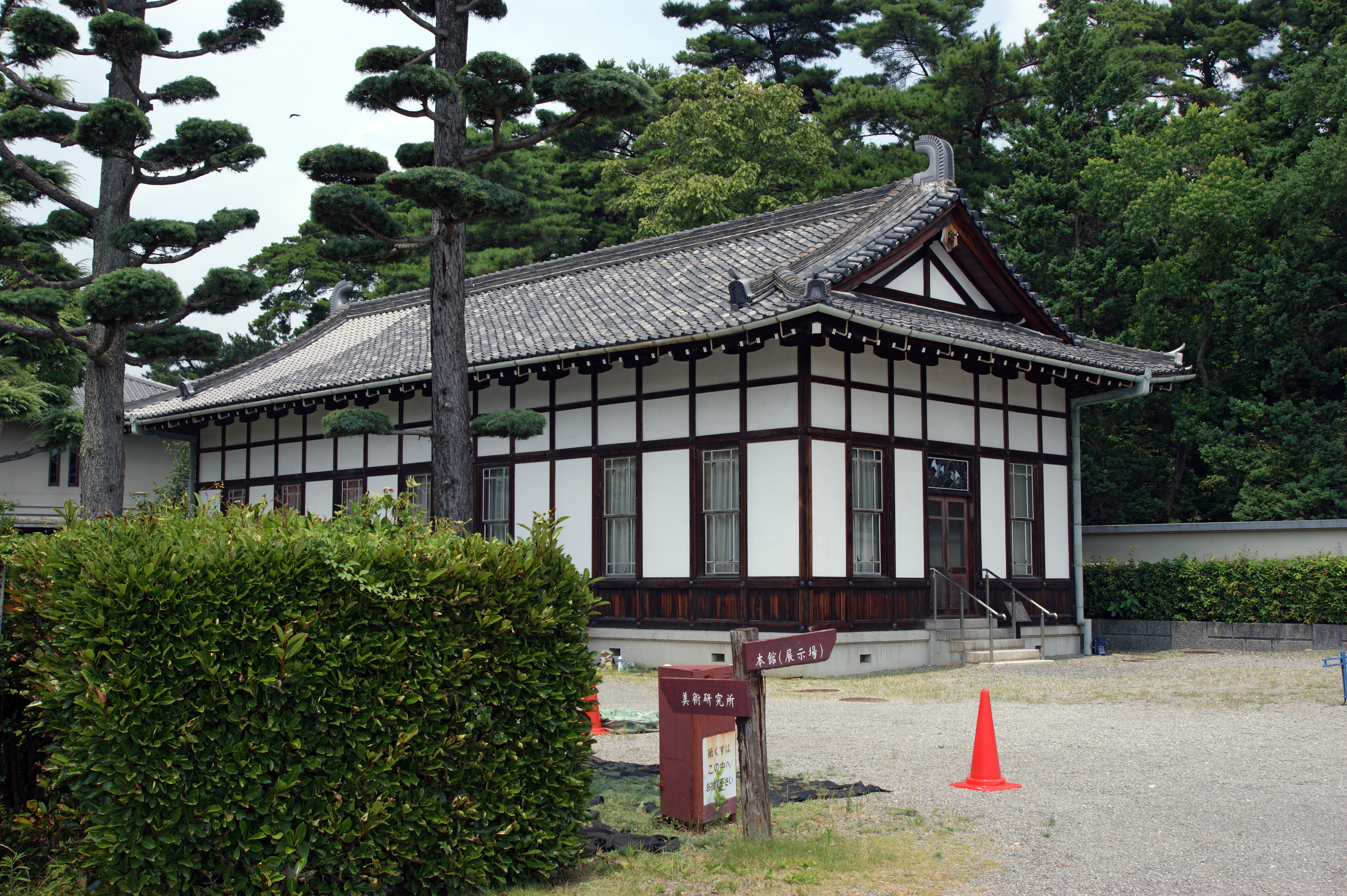 The Museum Yamato Bunka Kan in Nara, Nara prefecture, Japan